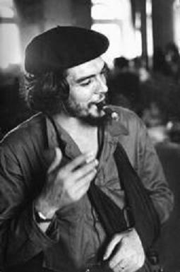 A Precious Picture of Amazing Diplomat Che Guevara.